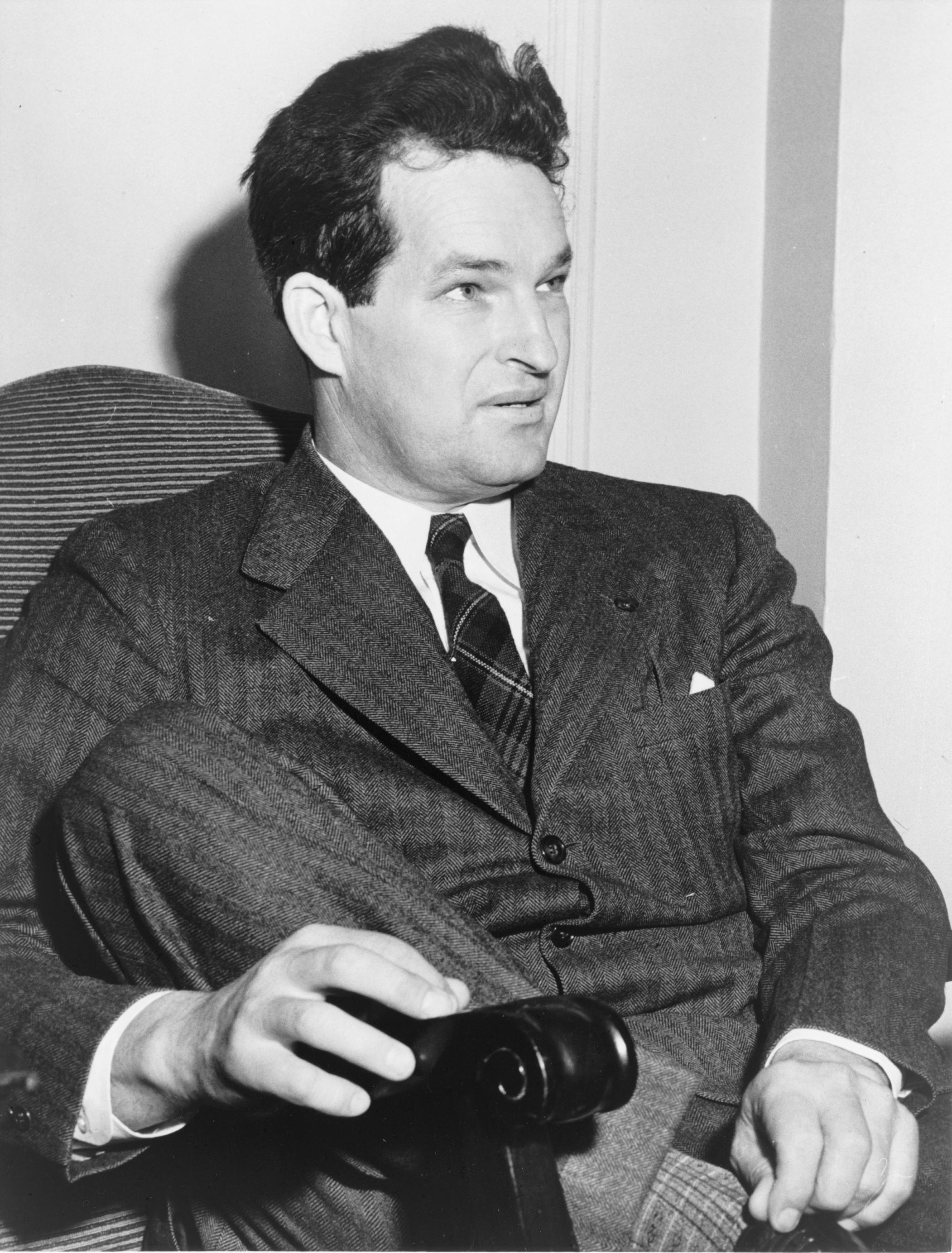 Paul Green, Pulitzer Prize-winning playwright.